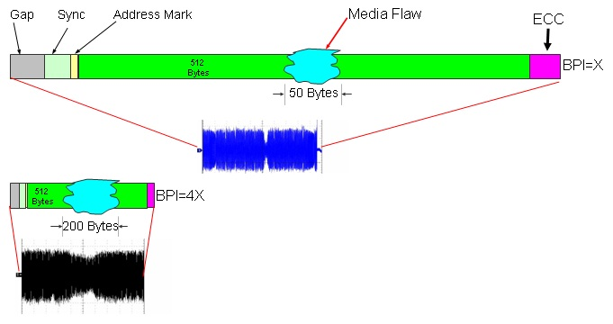 Increased affect of media defects using 512- byte per sector formats at two different bit densities